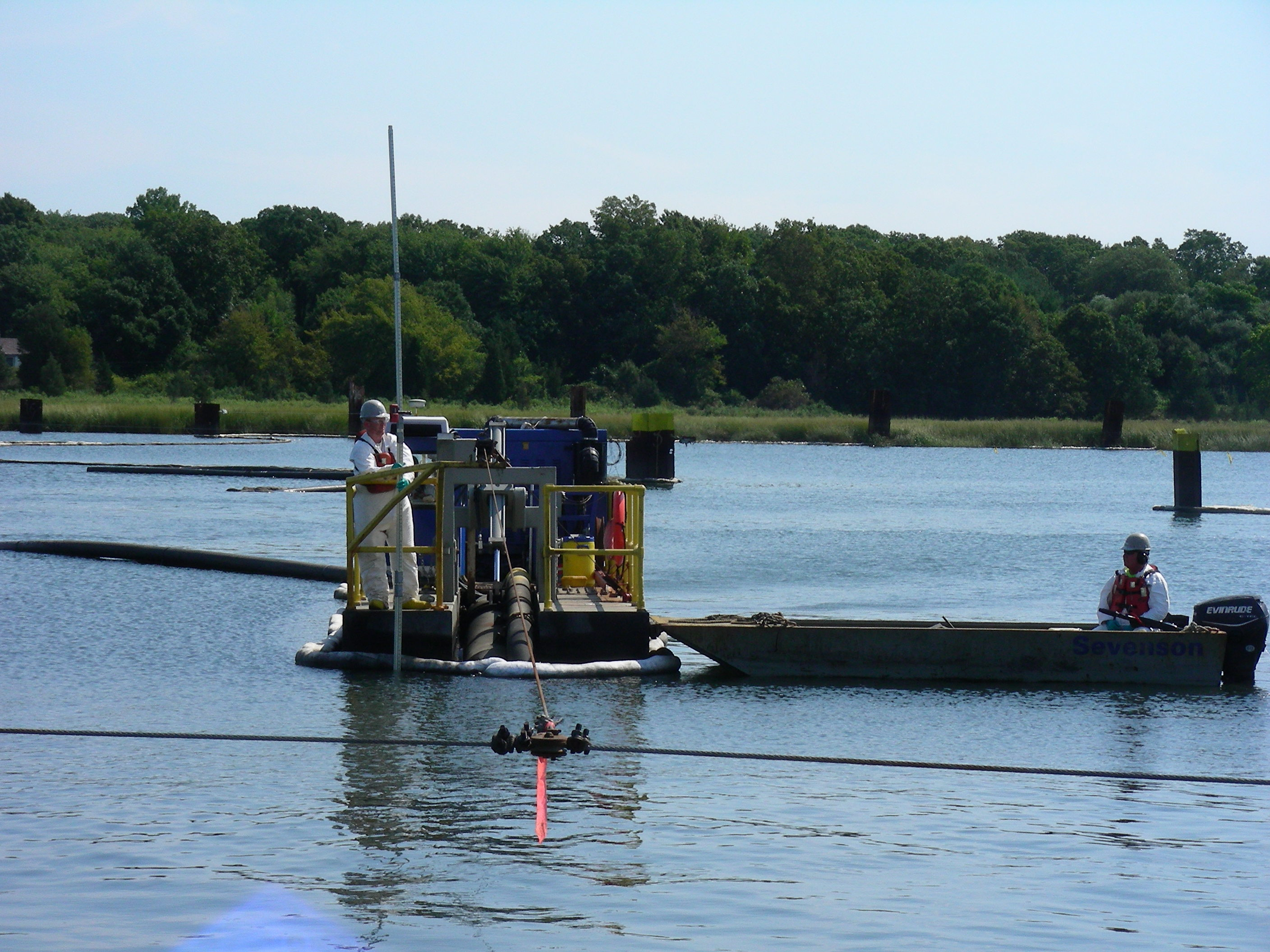 Cables keep the dredges on course. To help each of the dredges stay on track, a series of cables guide each dredge as it winches itself back and forth while sucking up contaminated sediment below. To the right of the worker in white tyvek, there are two black pipes extending into the water. These are the suction lines leading to the dredge's cutterhead. Contaminated sediments are agitated through the rotating cutterhead and are sucked through the black floating pipeline behind the dredge for processing on shore. To learn more about the cleanup of PCBs in New Bedford Harbor